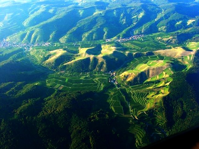 The Kaiserstuhl near Vogtsburg, Southern Germany near Freiburg.